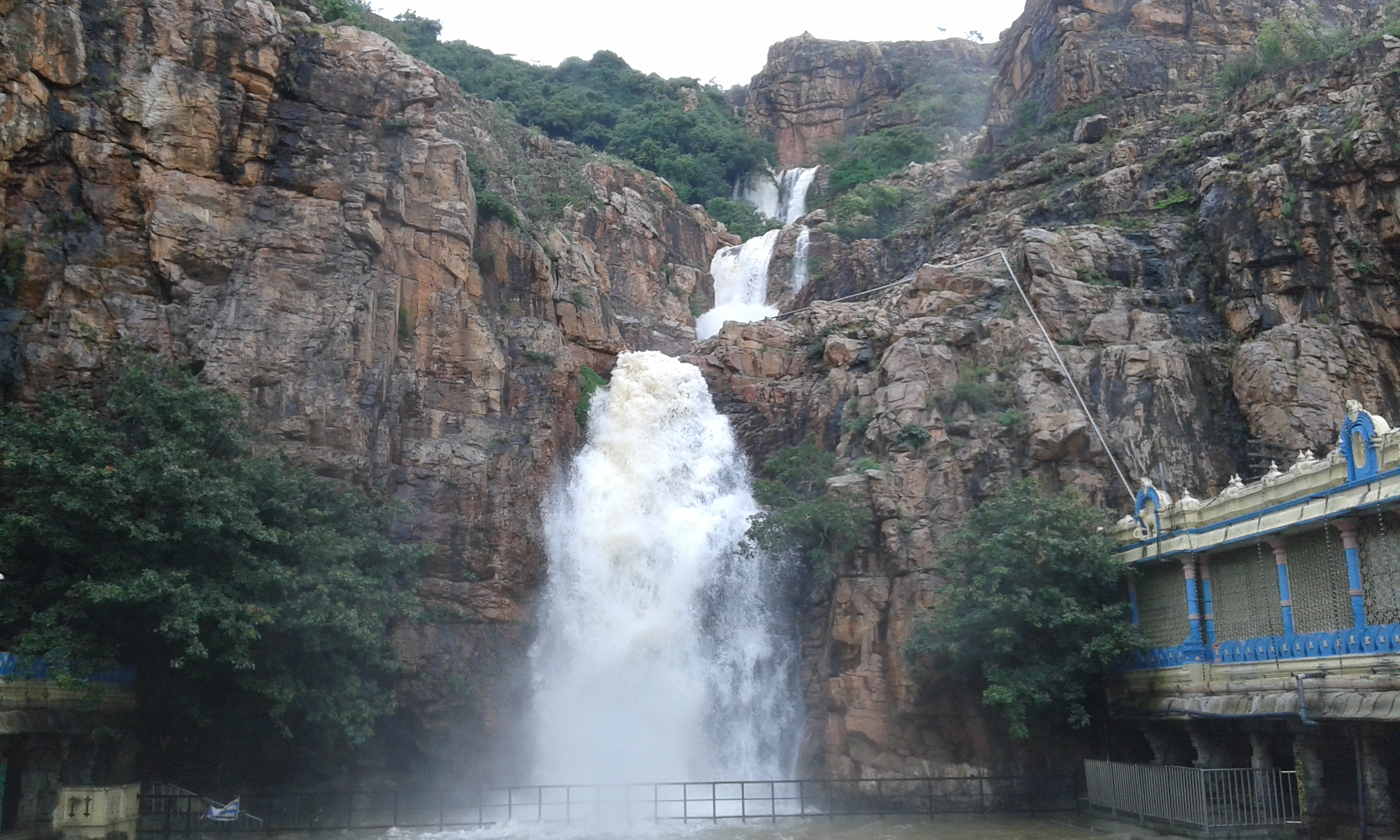 Kapila Theertham waterfalls Tirupati 2015